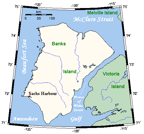 A closeup map of Banks Island, Northwest Territories, Canada